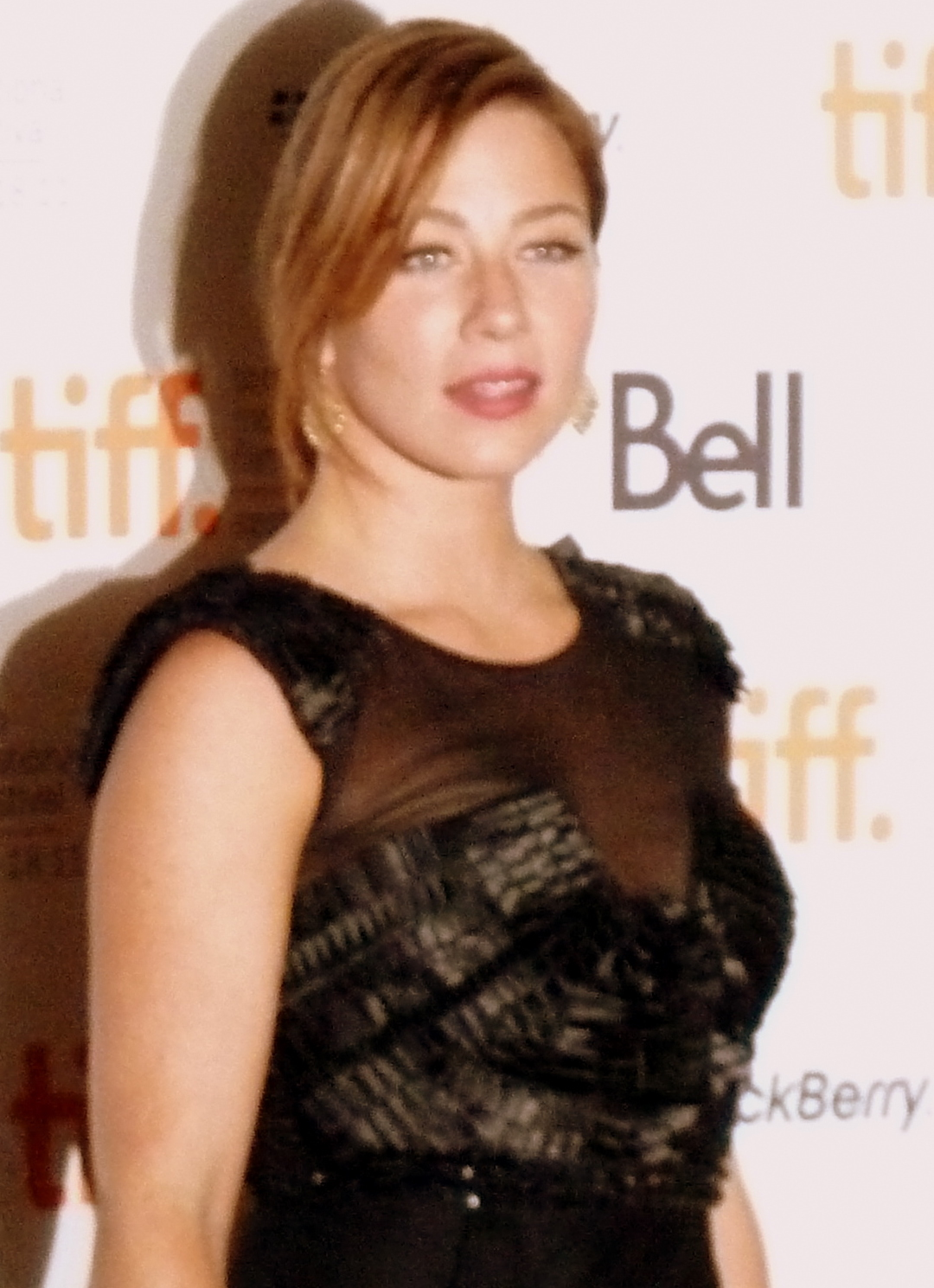 Lynn Collins at the premiere of Ten Year, Toronto Film Festival 2011.